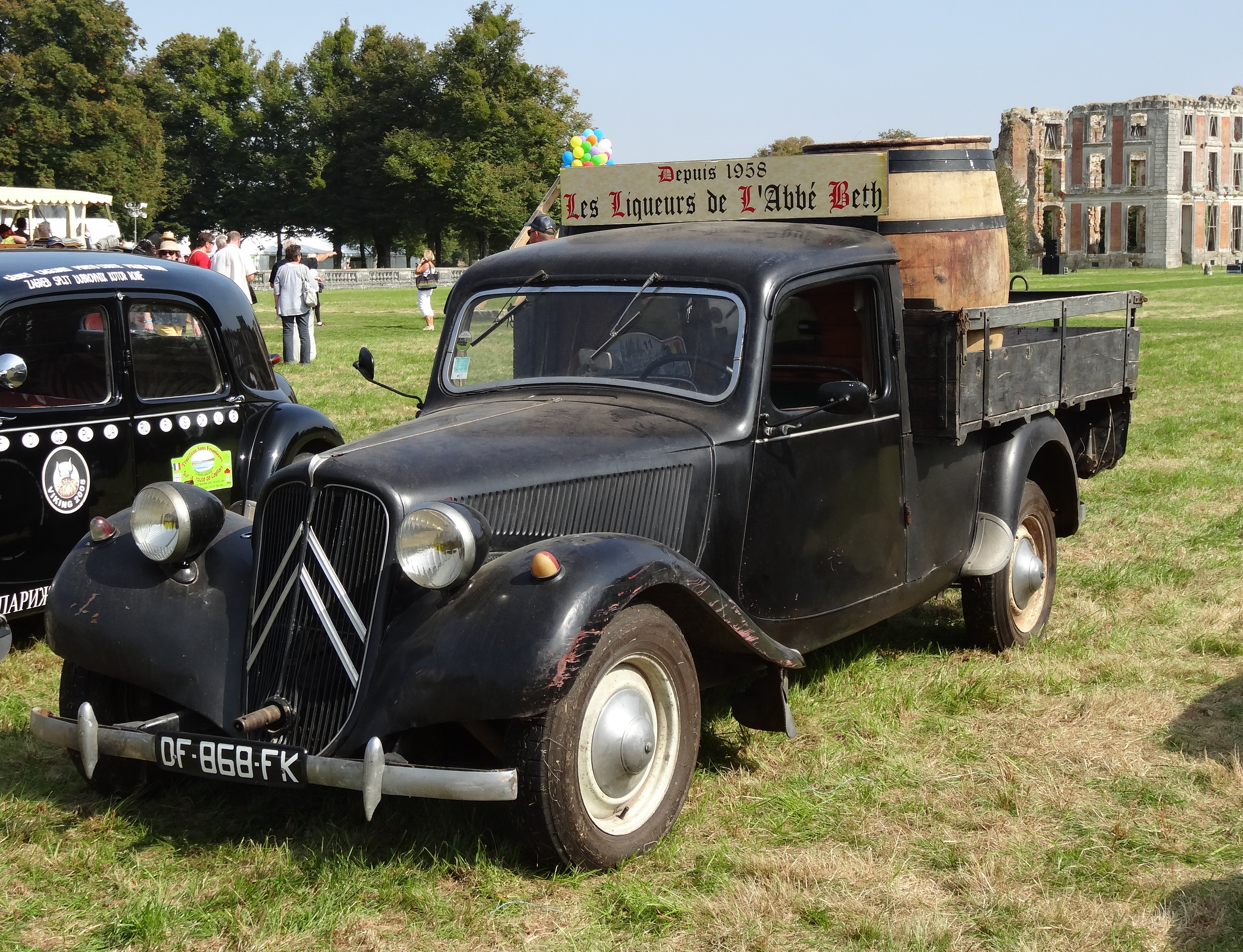 Citroën Traction Avant pickup